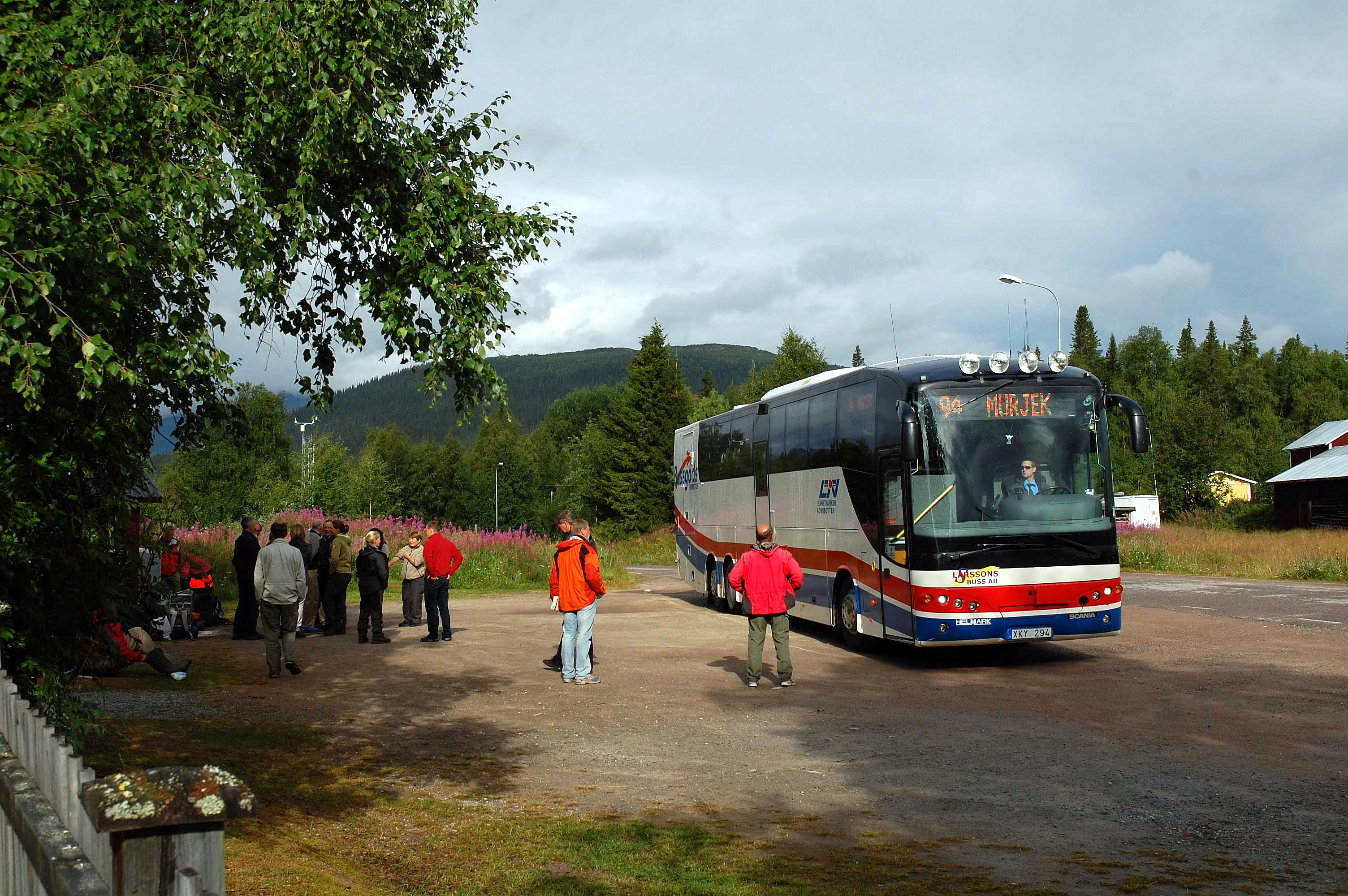 Kvikkjokk